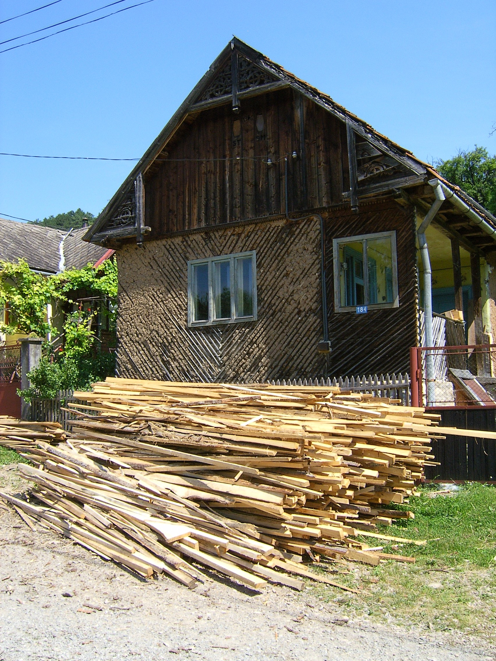 Construction in Văleni, Transylvania